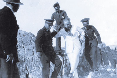 The commander of the Guard regiment İsmail Hakkı Tekçe and Mustafa Kemal Atatürk at Tunceli region in 1937.